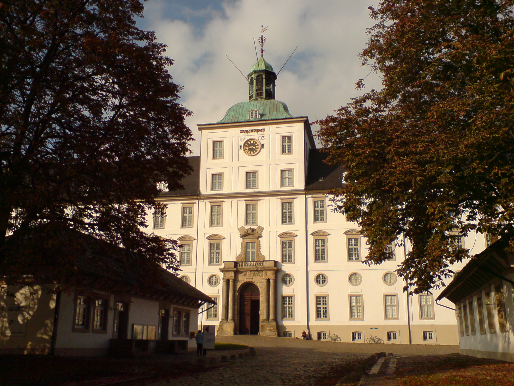 Description=Gottorf, Portal und Wachhäuser Source=myself Date=10.2007 Author=PodracerHH 19:07, 7 October 2007 (UTC)